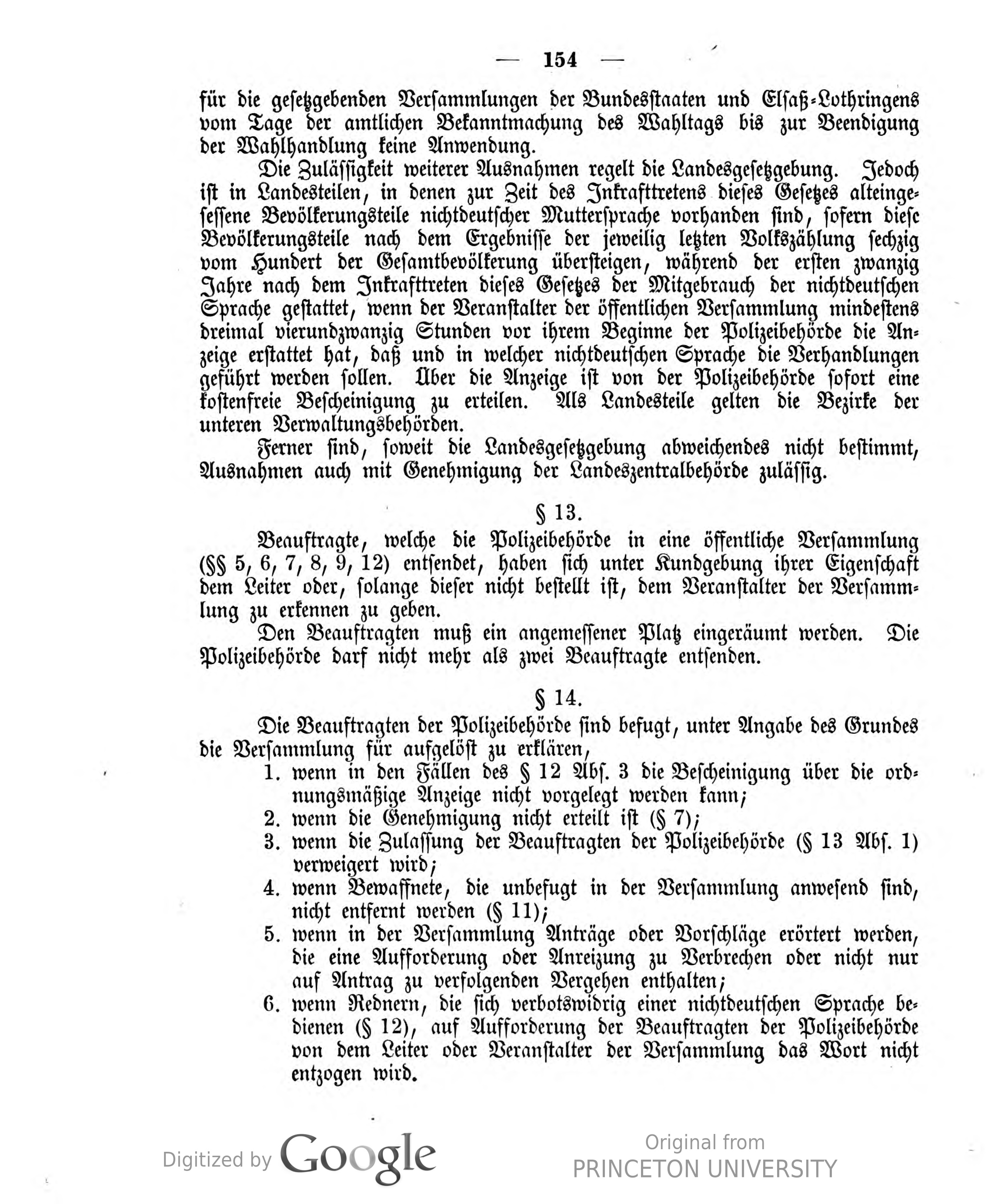 Scan from the Imperial Law Gazette of Germany, 1908